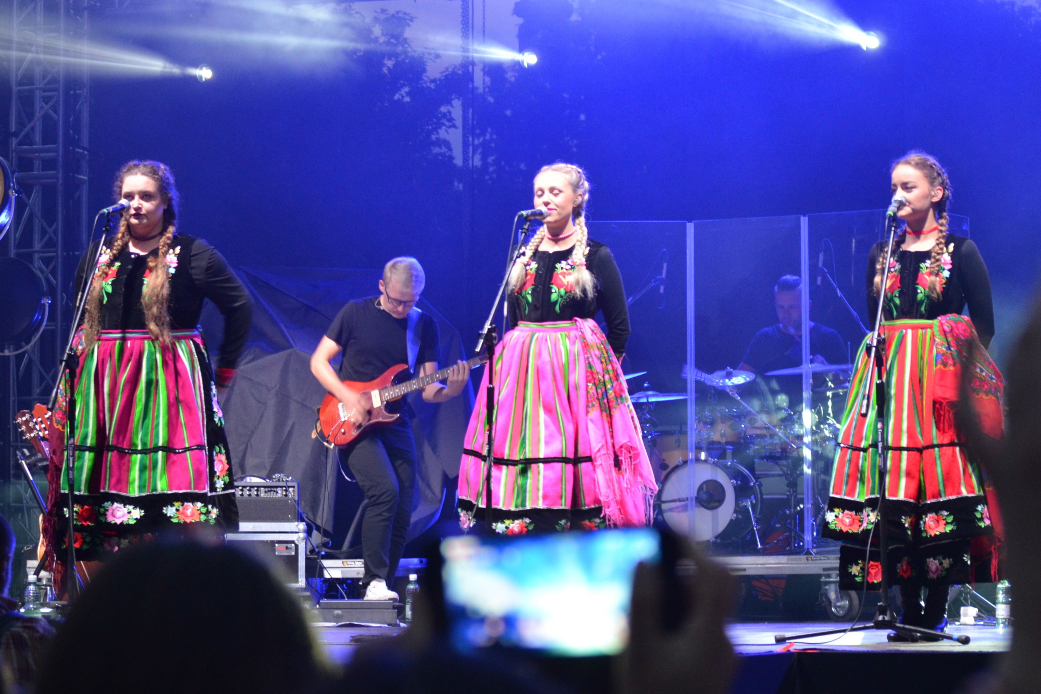 Tulia (a folk music group from Poland).